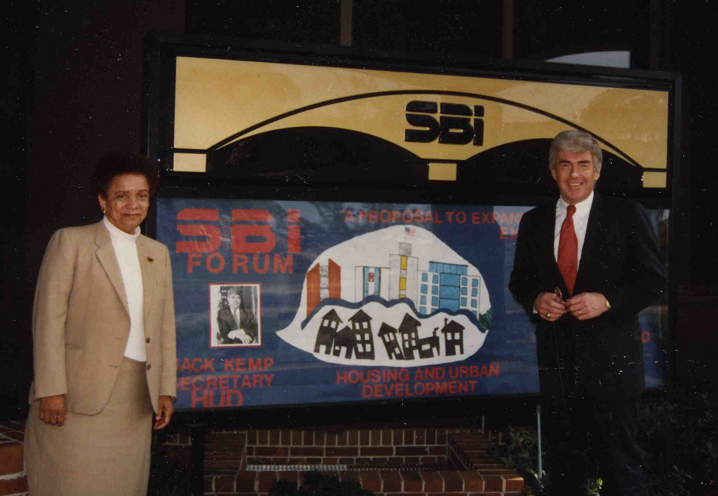 Jack Kemp as United States Secretary of Housing and Urban Development